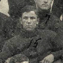 Lew Hardage, Auburn football player, cropped from team picture.